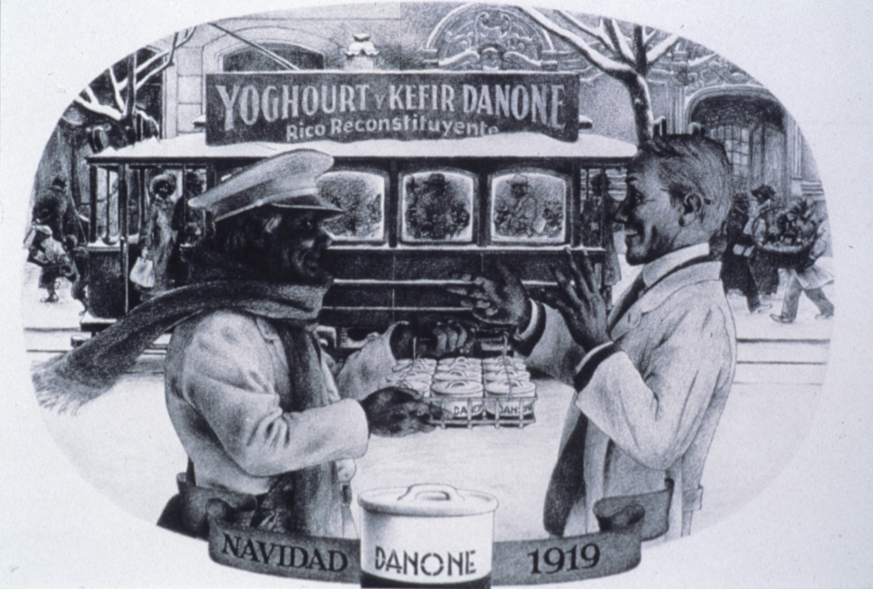 A 1919's Danone yoghurt cup Spanish poster